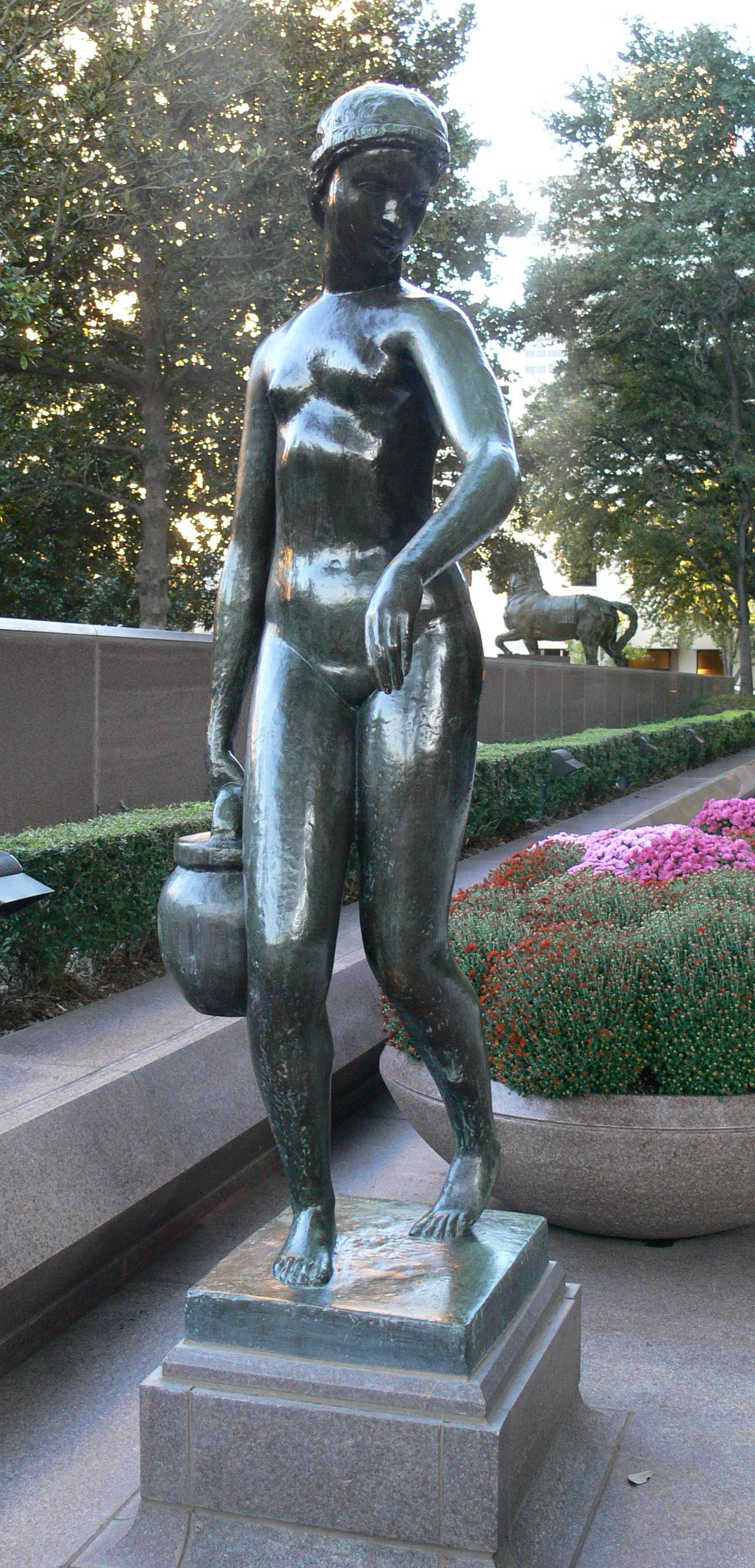 Dallas, Texas: Trammell Crow Center Sculpture Garden Joseph Bernard: Young Girl Carrying Water